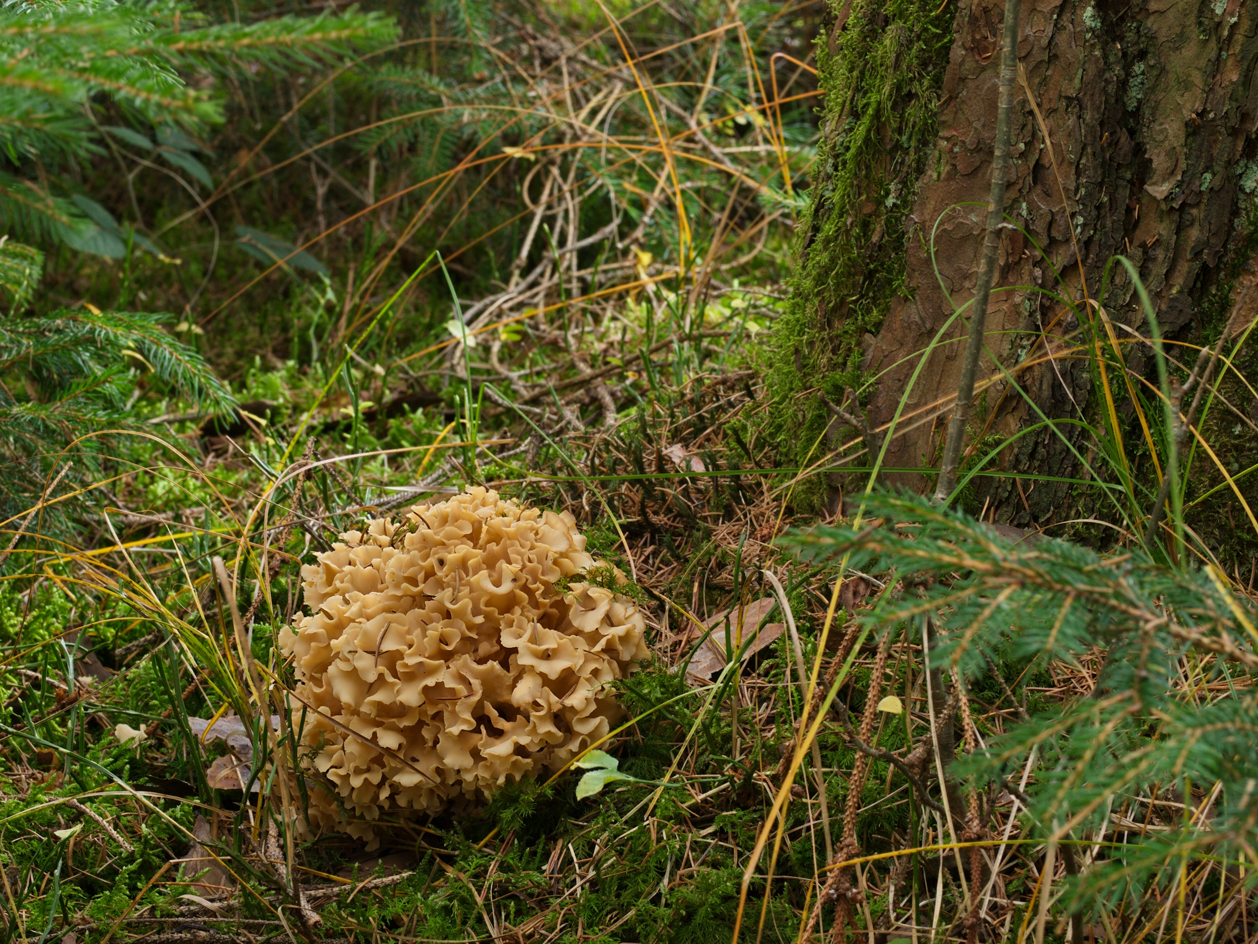 Wood Cauliflower (Sparassis crispa) at the stem base of a Scots pine (Pinus silvestris)